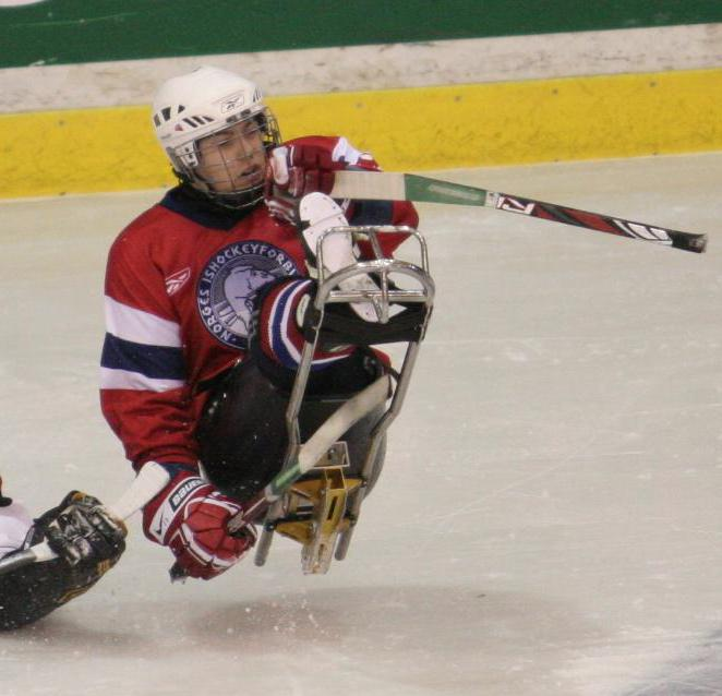 Loyd Remi Johansen in Norway's semi final against Japan, in 2009 IPC Ice Sledge Hockey World Championships (Ostrava, Czech Republic).